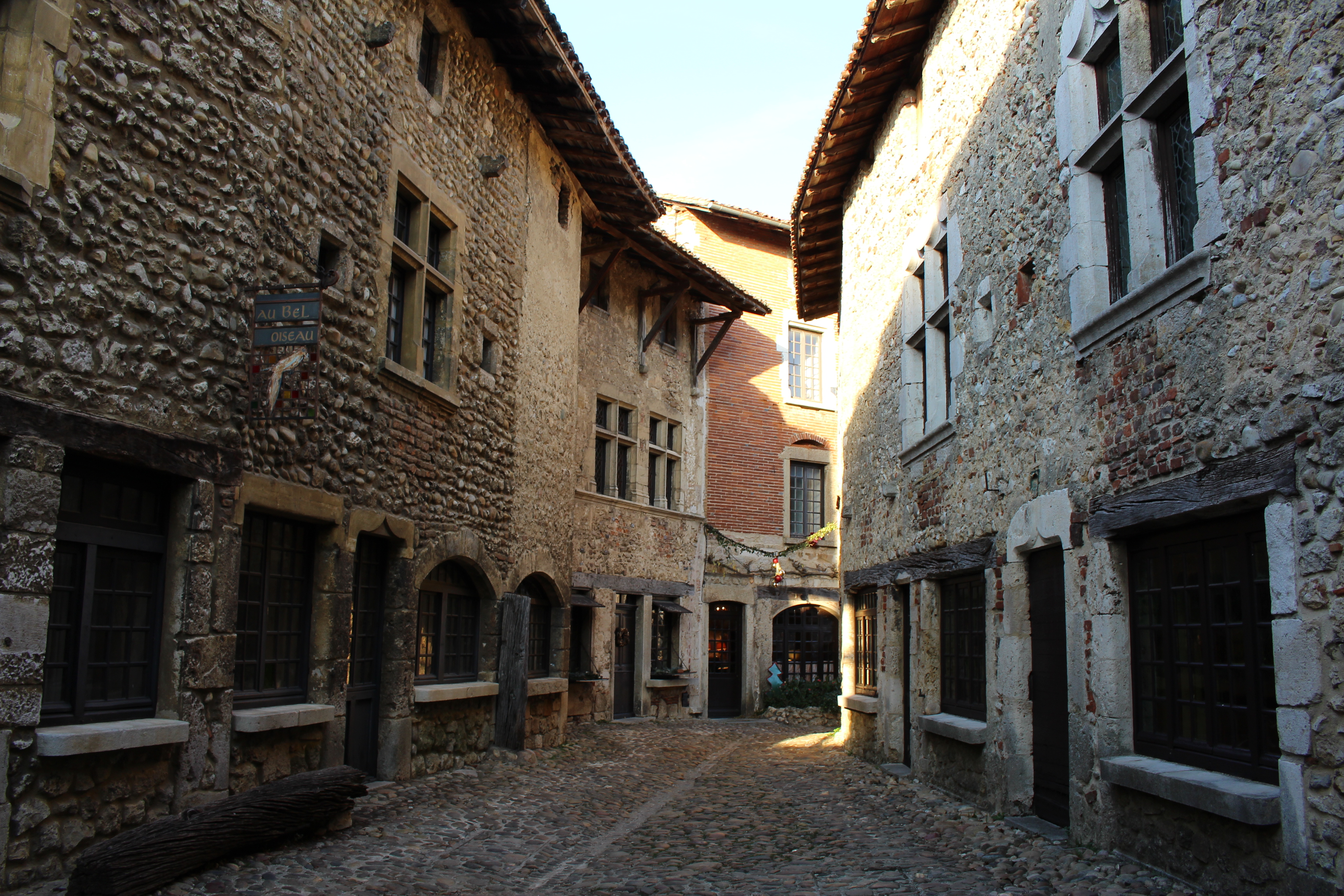 Rue du Prince, a street in the medieval village of Pérouges (France).